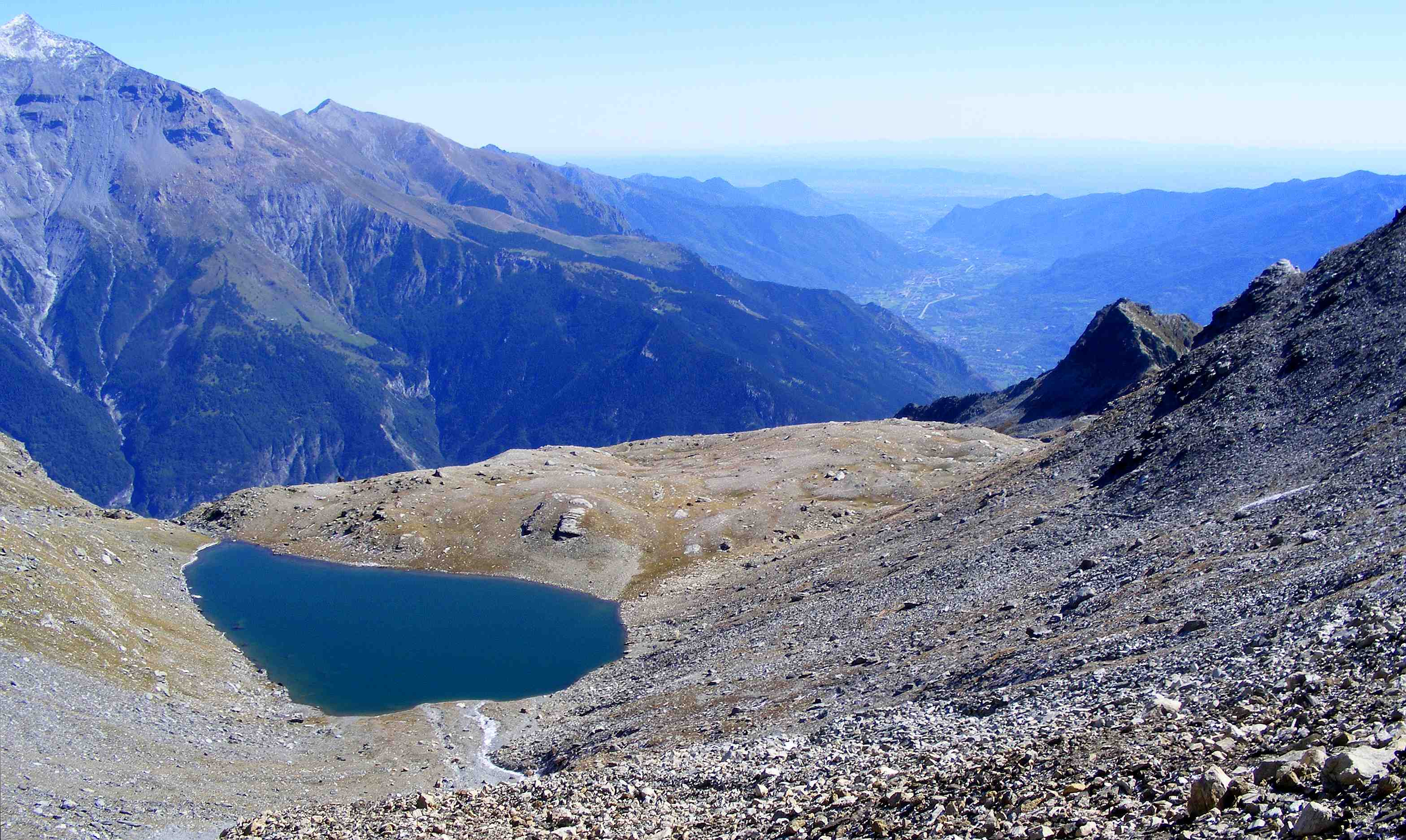 Lake della Vecchia (Cottian Alps) seen from south-east ridge of Mount Giusalet